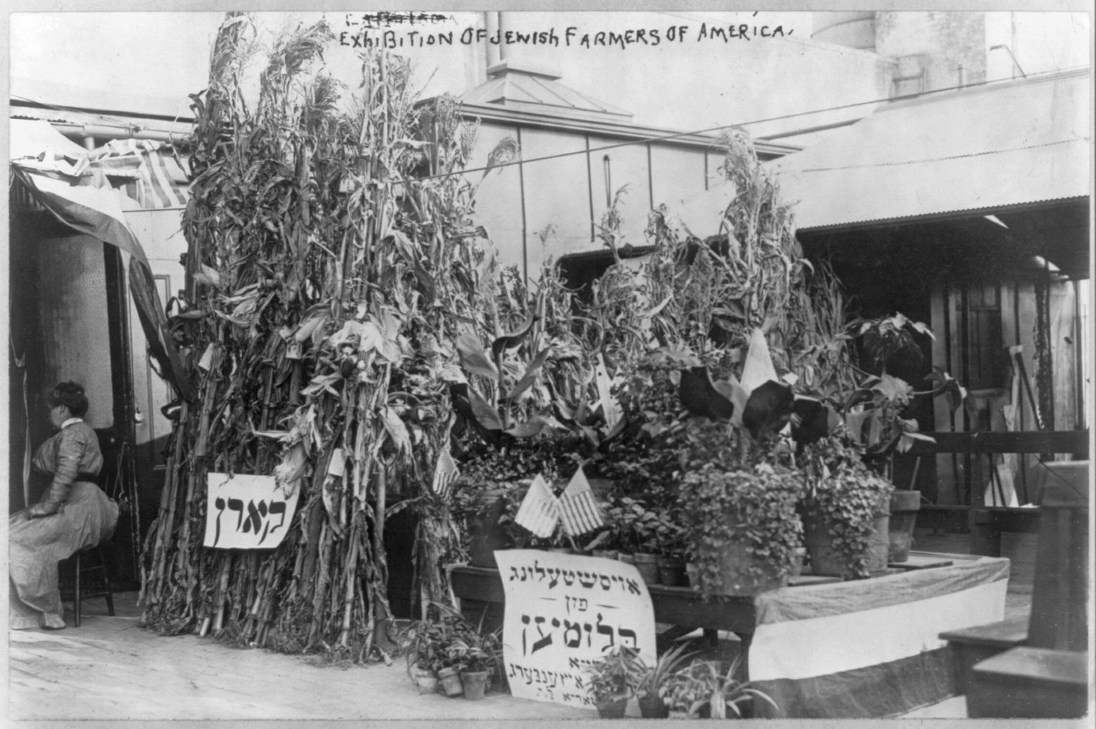 Exhibition of Jewish Farmers of America